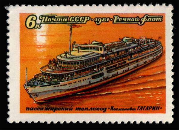 USSR stamp, 1981. 6 kopecks. River ships series. Steamer ship Cosmonaut Gagarin. CPA No. 5207.